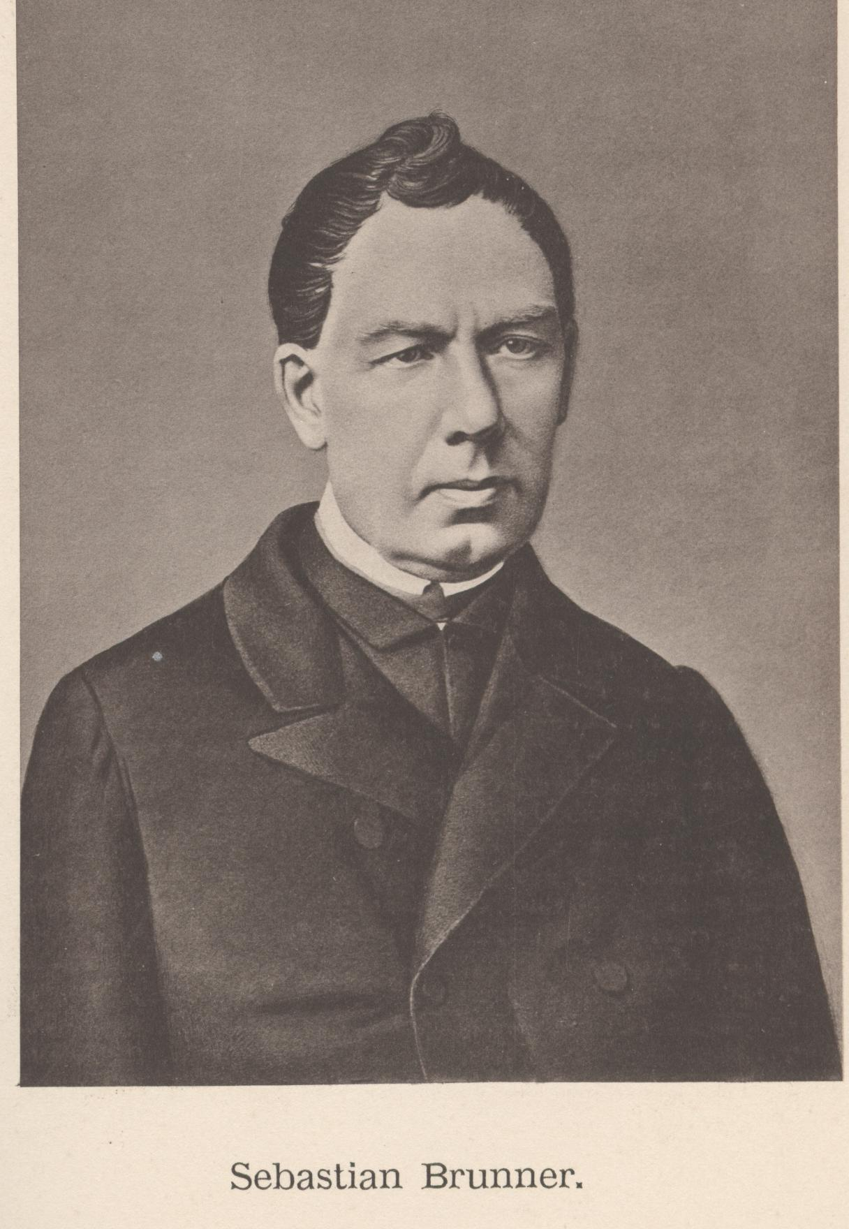 Sebastian Brunner (1814–1893), Austrian, anti-Semitic Catholic priest, writer and newspaper publisher.